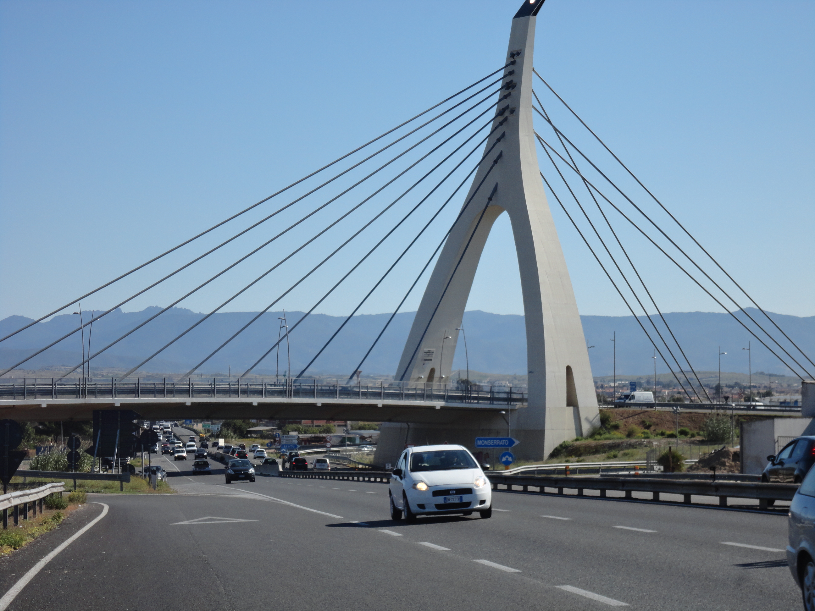 Cable-stayed bridge of the Monserrato University Campus interchange